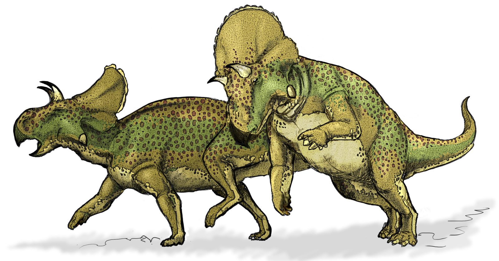 Avaceratops was a small Ceratopsian dinosaur which lived during the late Campanian during the Late Cretaceous Period in what is now the Northwest United States.